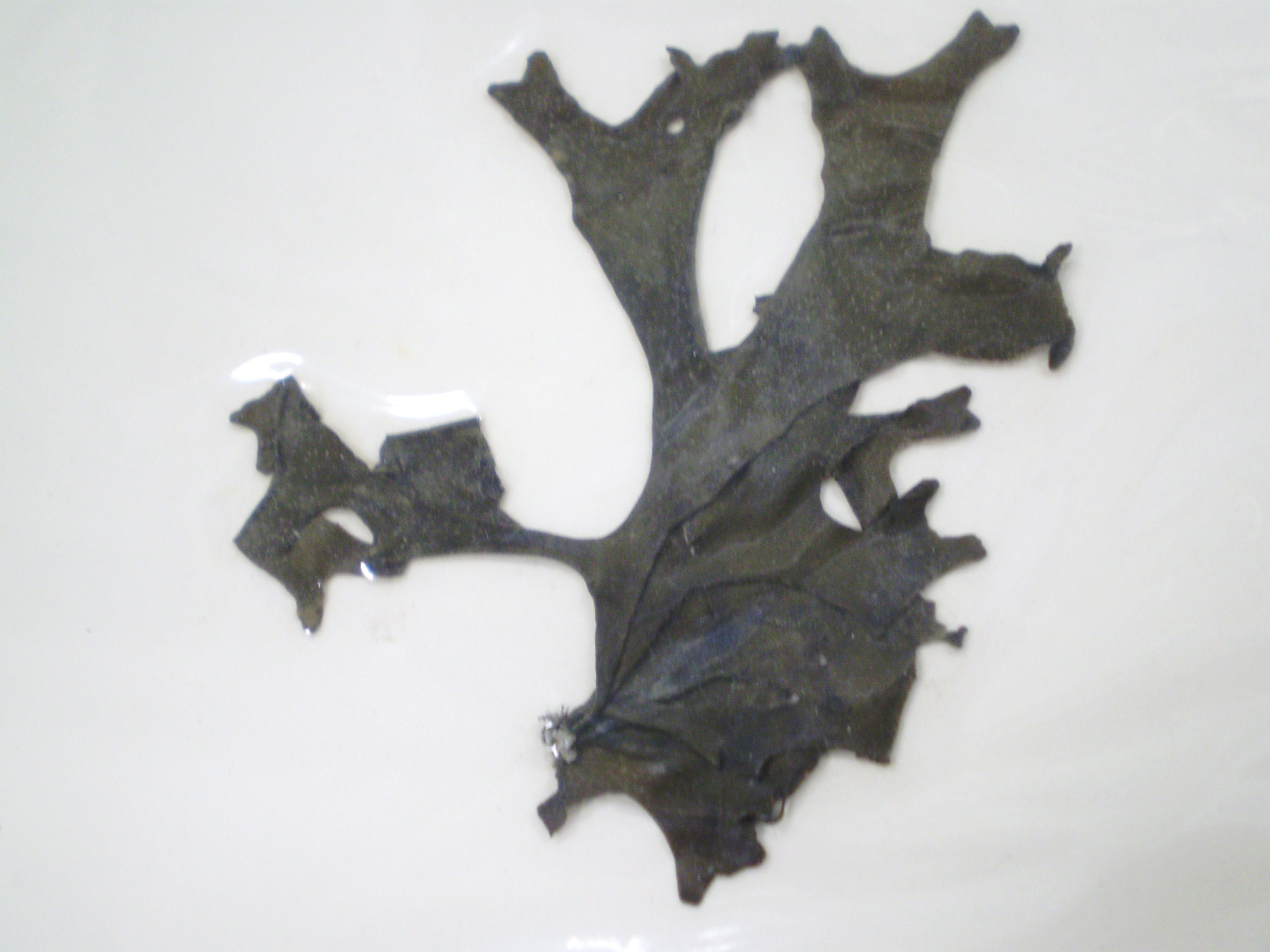 Specimen of Ishige sinicola (Ishigeaceae)